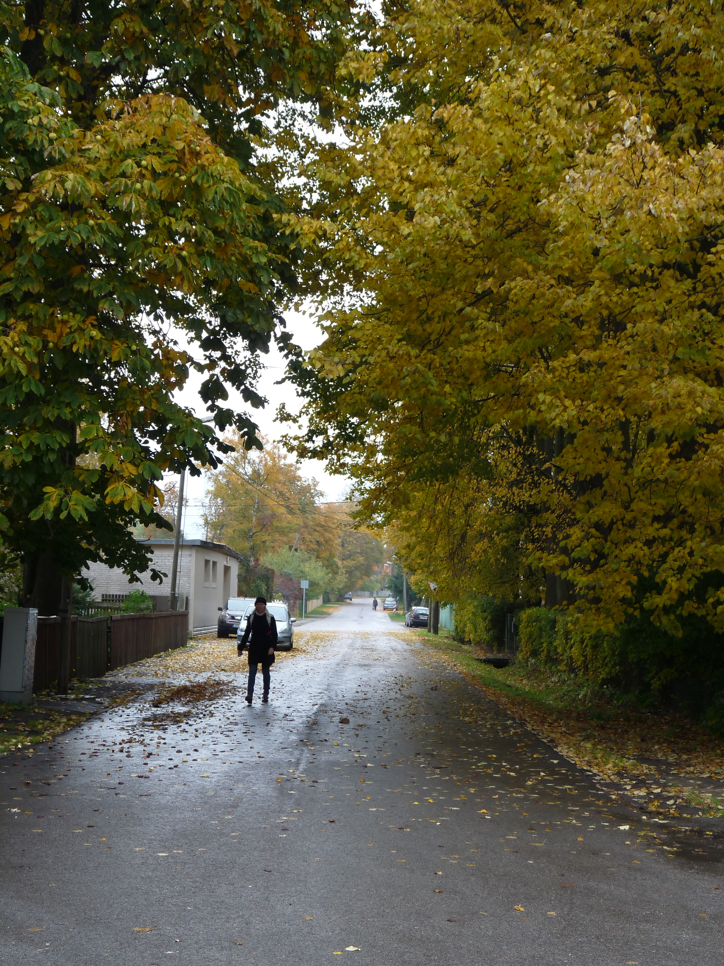 Auru street in Tallinn, Estonia